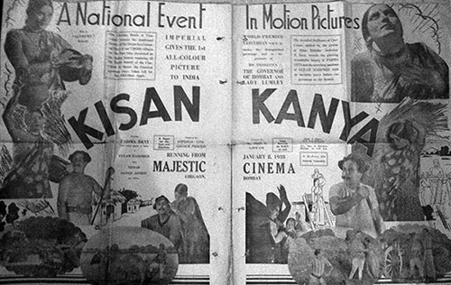 A poster of India's first colour film Kisan Kanya